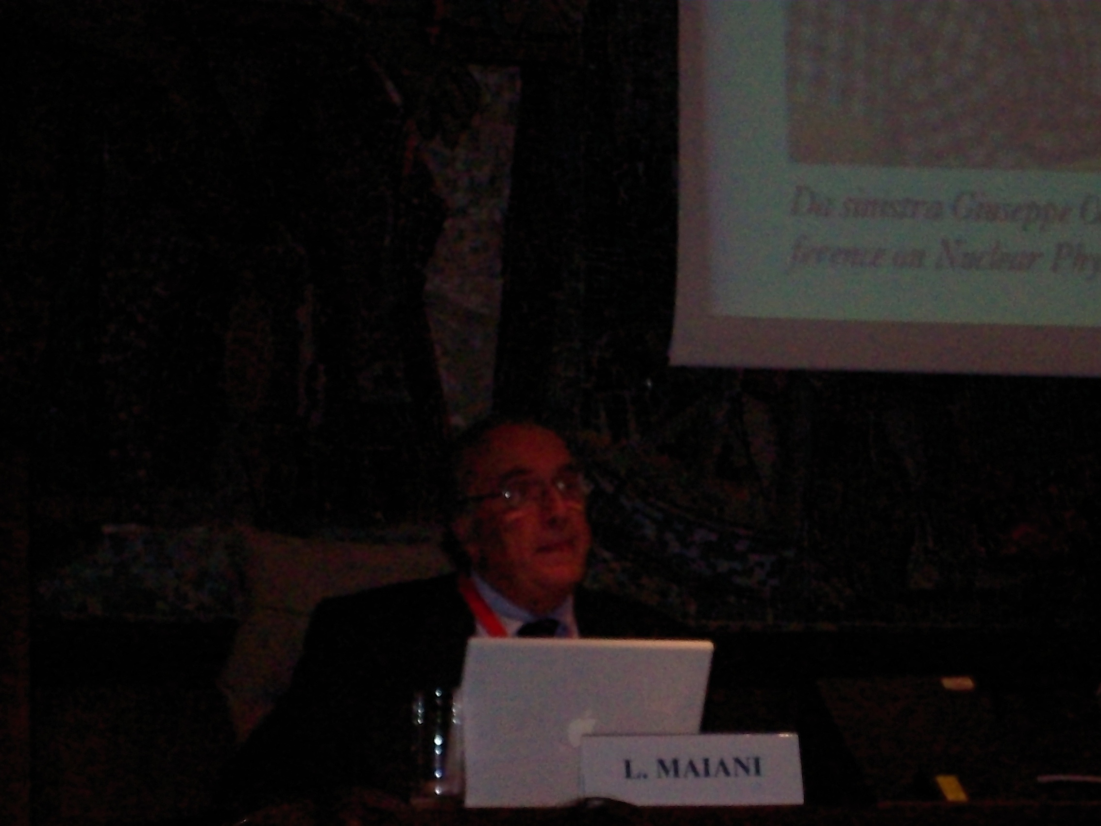 Physicist Luciano Maiani, former CERN Director General (1999-2003), INFN (Istituto Nazionale di Fisica Nucleare - Italian institute for nuclear physics) director (1993-1997) and current CNR (Consiglio Nazionale delle ricerche - italian research council) director (2008-) give a conference during the "Bergamo Scienza" science festival, in Bergamo, Italy, on 12th October 2008. Conference title: " Giuseppe Occhialini and the evolution of physics in the second half of XXth century".